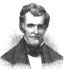 Tennessee Governor William Carroll (1788–1844).